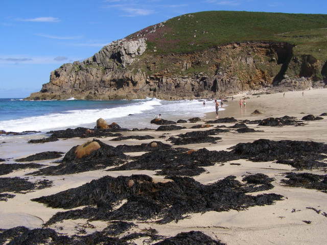 Beach at Portheras Cove. Looking across the beach at low tide, towards the headland of Carn Clough on the east side of the cove. The seaweed in the foreground has been stranded on this rockier, western end of the sands. The beach is relatively "unspoiled" due to the fact that it's not easy to get to.